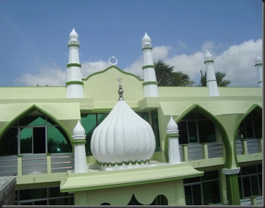 Elanthangudi Masjid